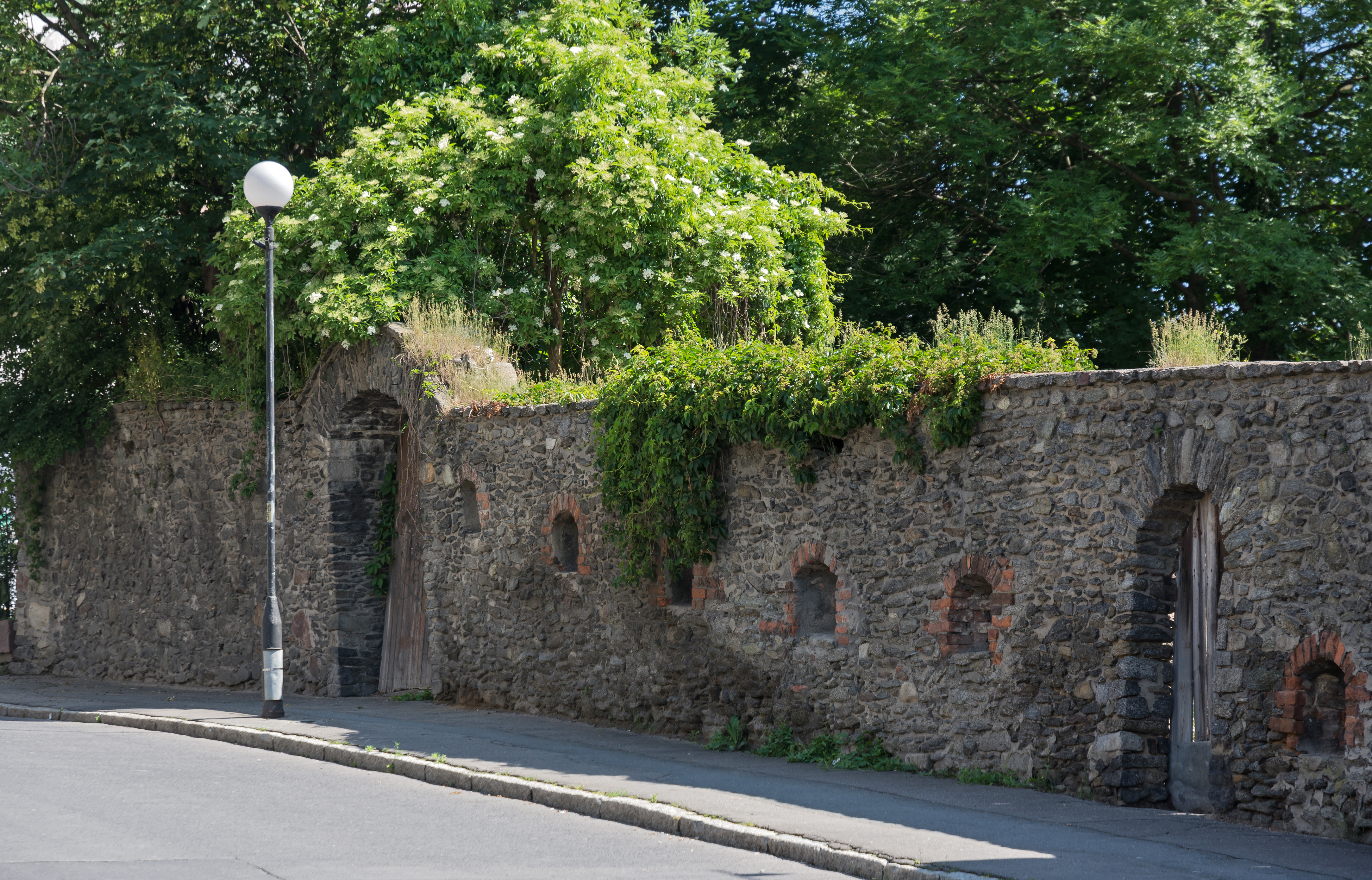 City walls in Niemcza